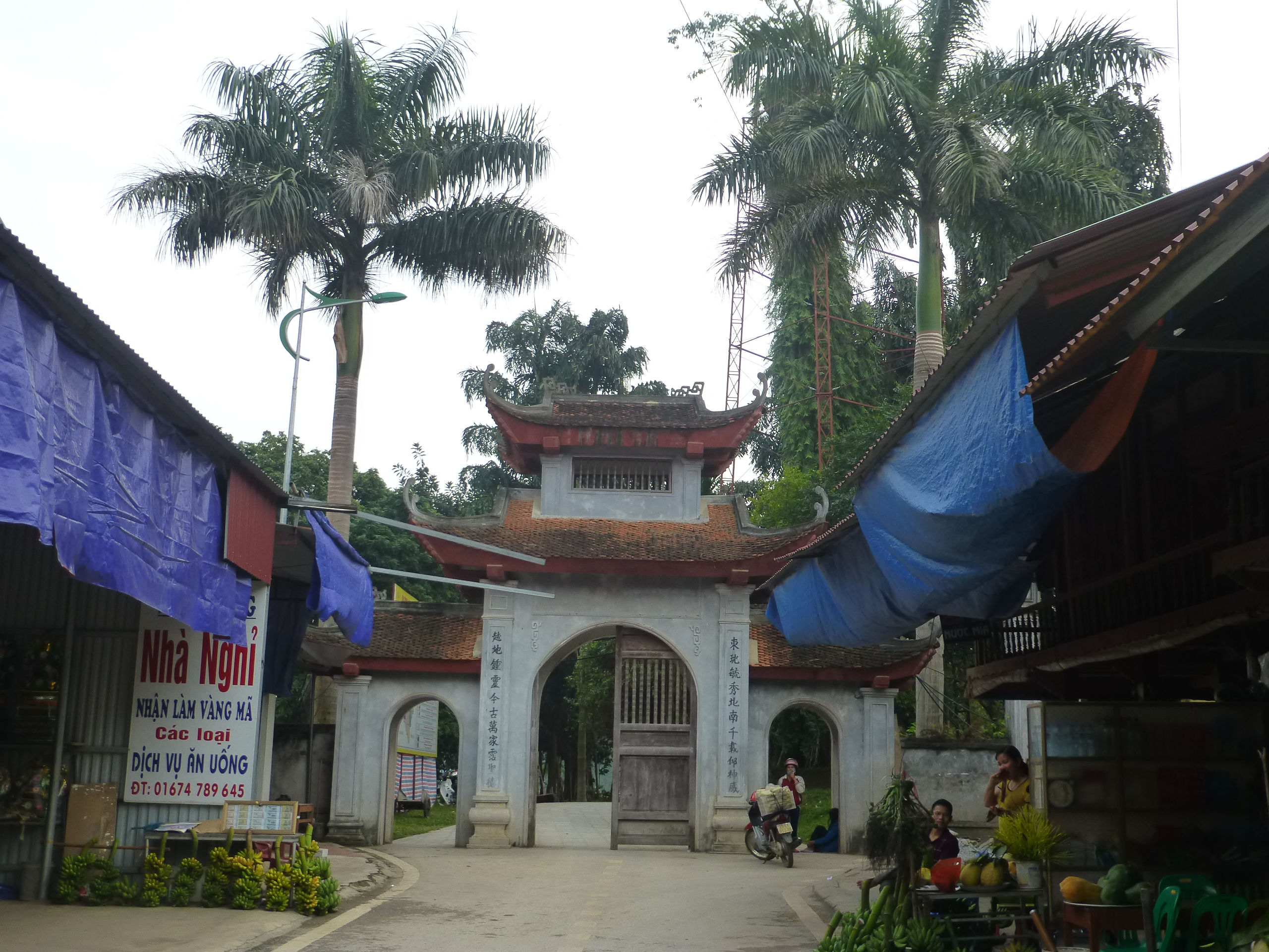 Temple Đông Cuông, in the commune of the same name, in Văn Yên District of Yên Bái Province.